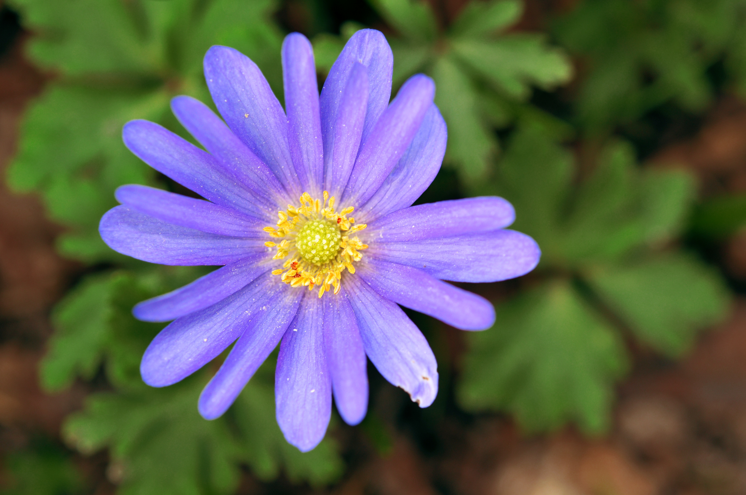 Anemone blanda Blue Shades. Anemone blanda, Syn. Anemona apennina subsp. blanda (Schott et Kotschy) Nyman